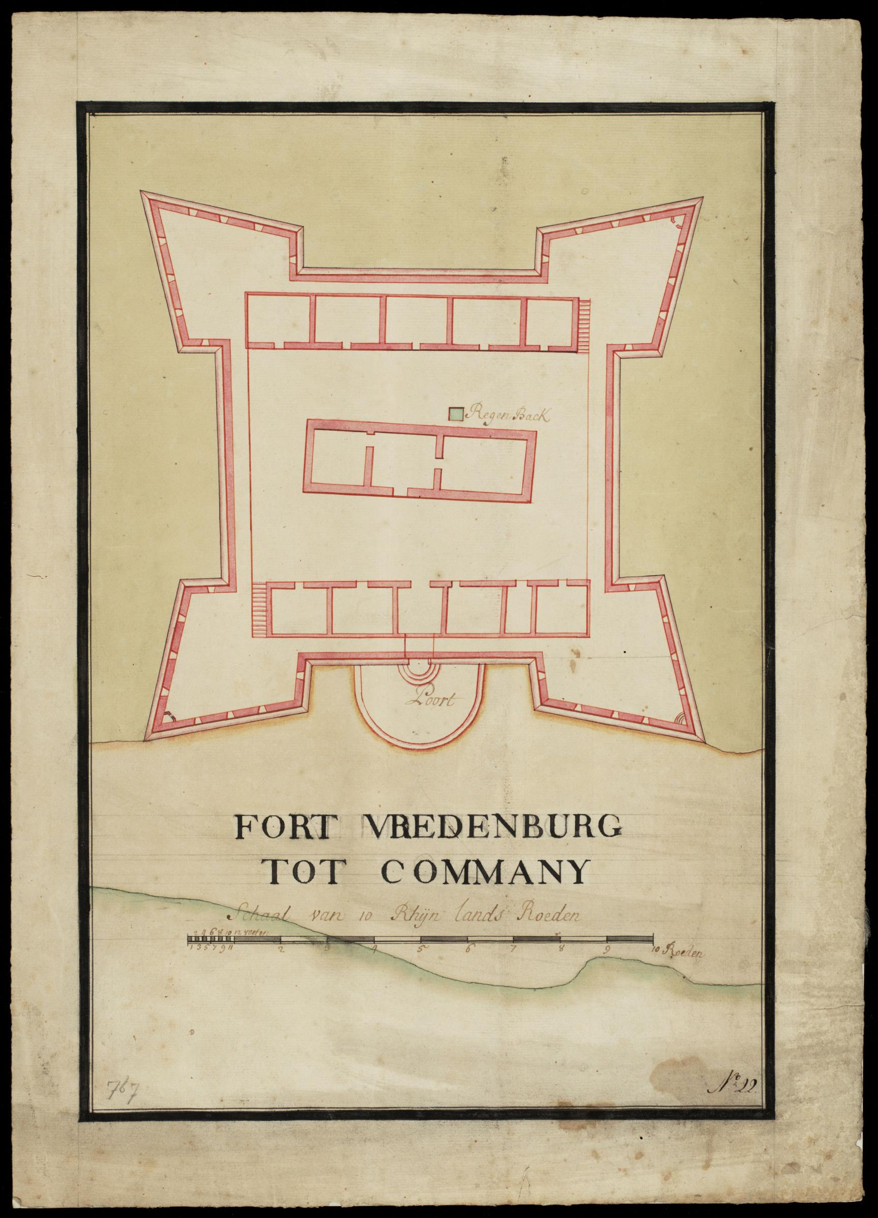 Floor plan of the Vreddenburg fort at Kommenda. Title in the Leupe catalogue (NA): Het Fort Vredenburg tot Commany. Fort Vredenburg tot Commany. Notes on reverse: No. 26 Fort Vredenburg. Register 8, Deel1, Folio 34, Portefeuille .. [inscribed on a blue label] / 464 [stamped in bold on a label]. Bottom right: No: 22. Bottom left: 767 [in pencil].